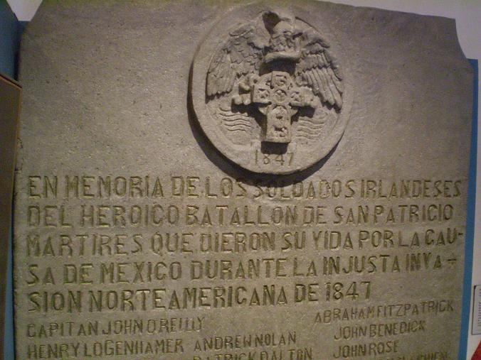 Inscription to the memory of the St Patrick's Batallion - Museo de las Intervenciones, Coyoacán, DF